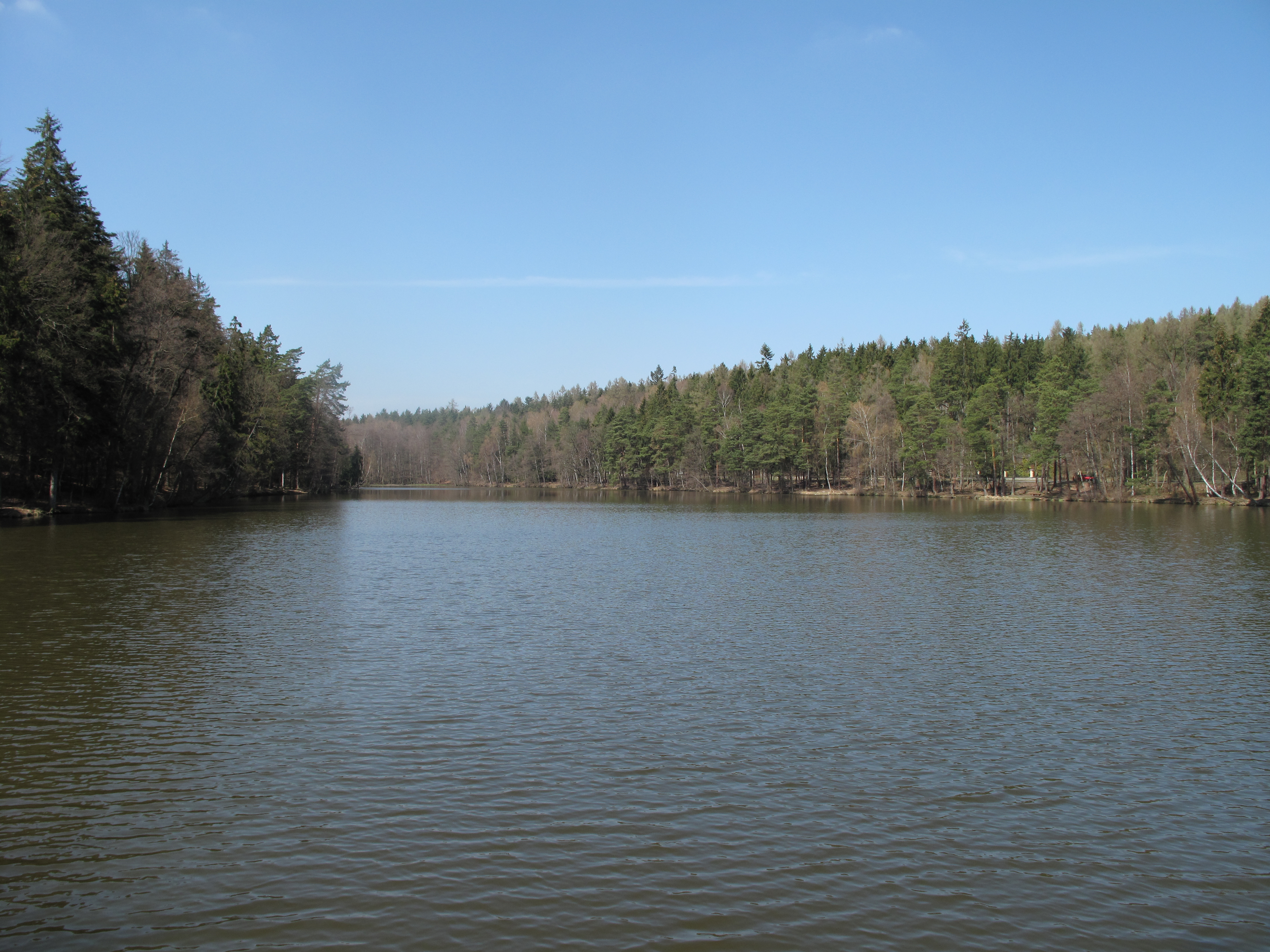 Jan Pond near Jevany village, Prague-East District, Czech Republic.